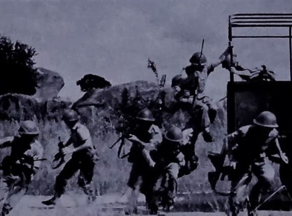 Rhodesian Light Infantry in training either at Cranborne or Brady Barracks, Federal Army. Advert image circulated 1963 to promote RLI parade in honour of then-ongoing Federation Prime Minister Roy Welensky.